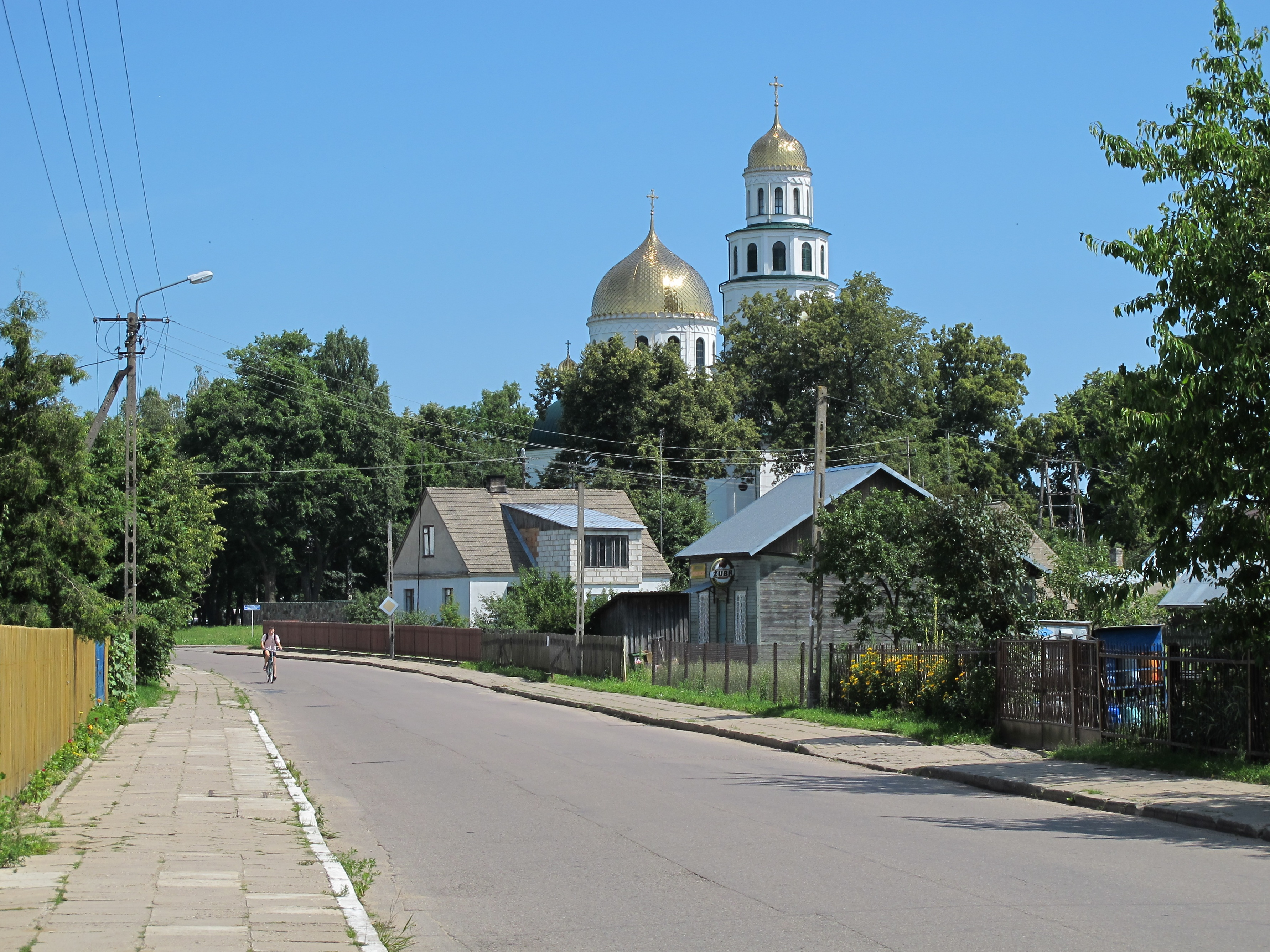 Białostocka street in Gródek village (gmina Gródek, podlaskie province, Poland); in the background orthodox church of the Nativity of the Blessed Virgin Mary